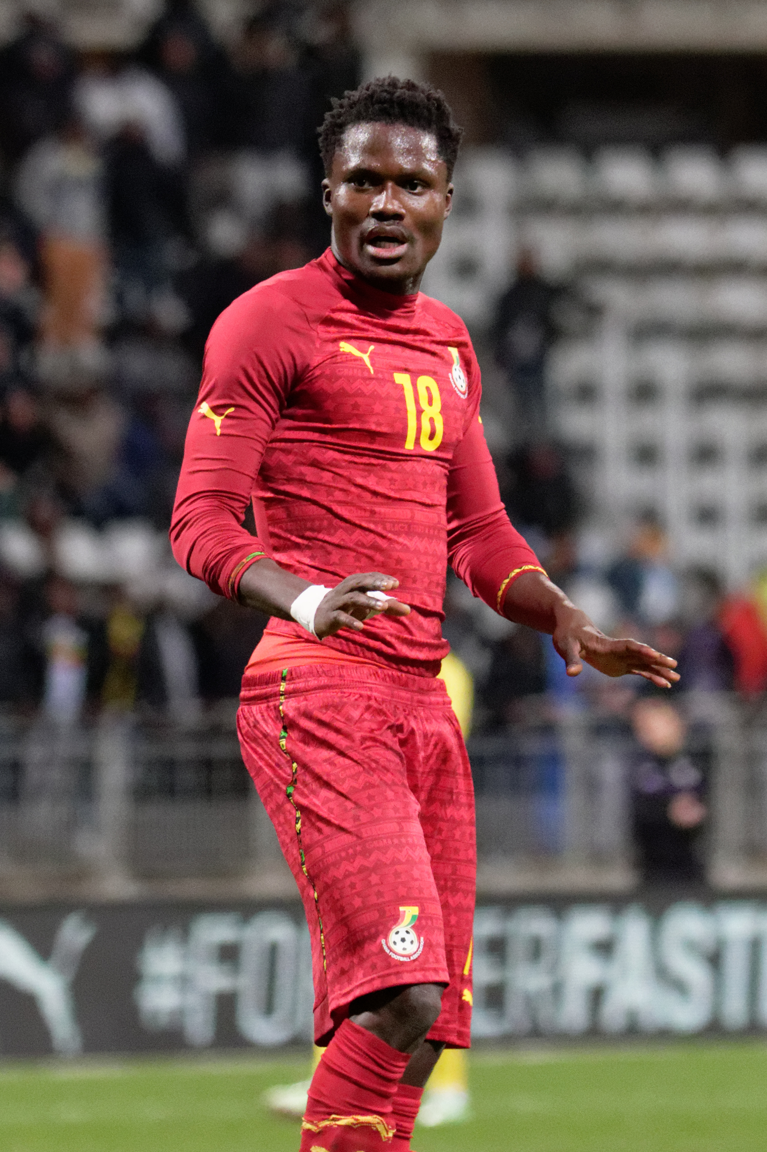 Mali vs Ghana, exhibition game at Paris, 31st March 2015.